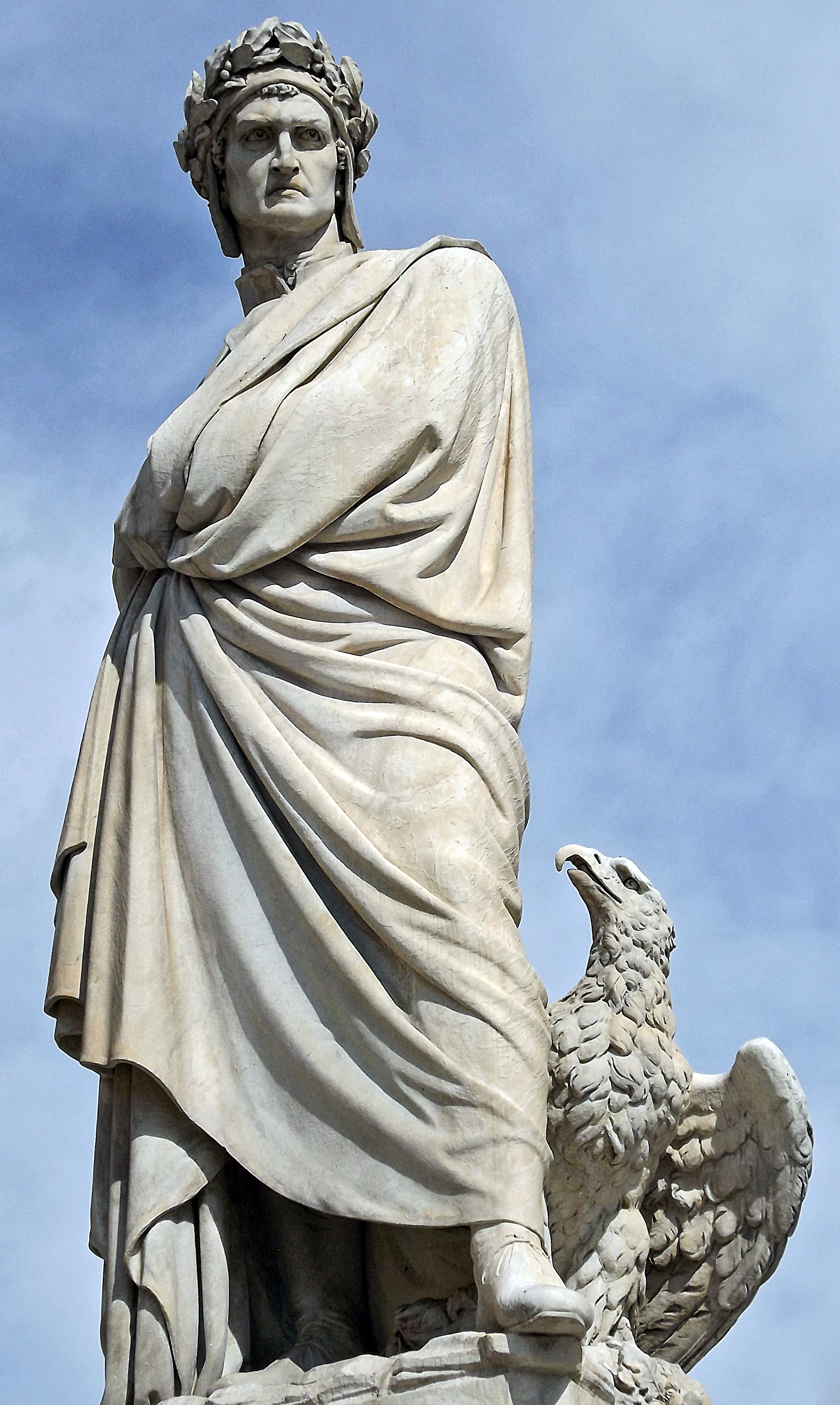 Statue of Dante Alighieri at the Piazza di Santa Croce in Florence, Italy